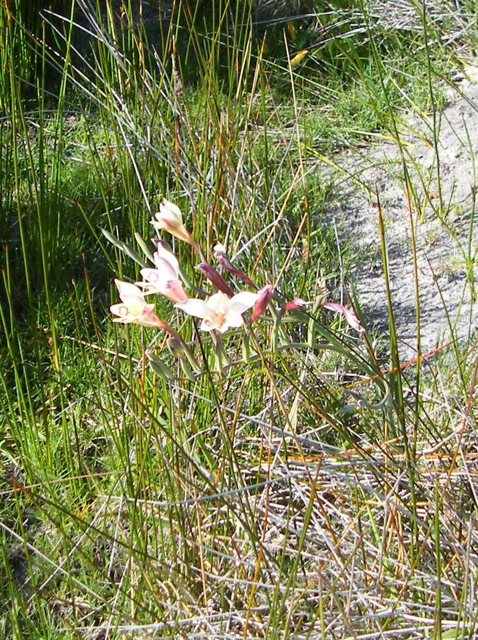 Damp soils